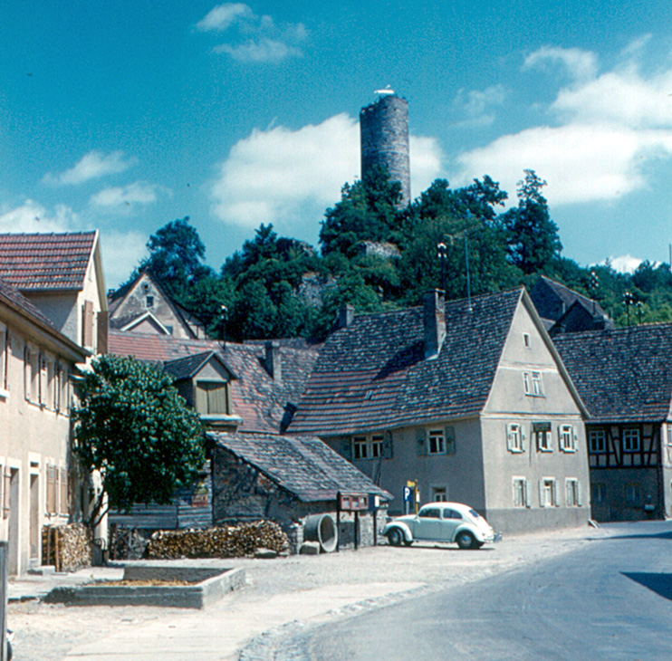 Herbolzheim, on the Jagst River, with Herboldsburg, a small ruined castle from the 13th century. My Volkswagen is in the photo.